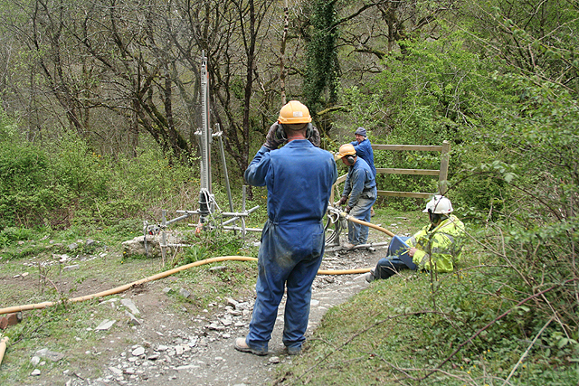 Buckland Monachorum: geotechnical borehole Drilling to determine ground strata by the site of the Walkham viaduct. If money allows, a replacement bridge may be built as part of a cyclepath utilising the track of the old Plymouth-Tavistock railway. The original viaduct was designed by I K Brunel. His wooden superstructure was replaced in 1910; the entire viaduct was demolished in 1965